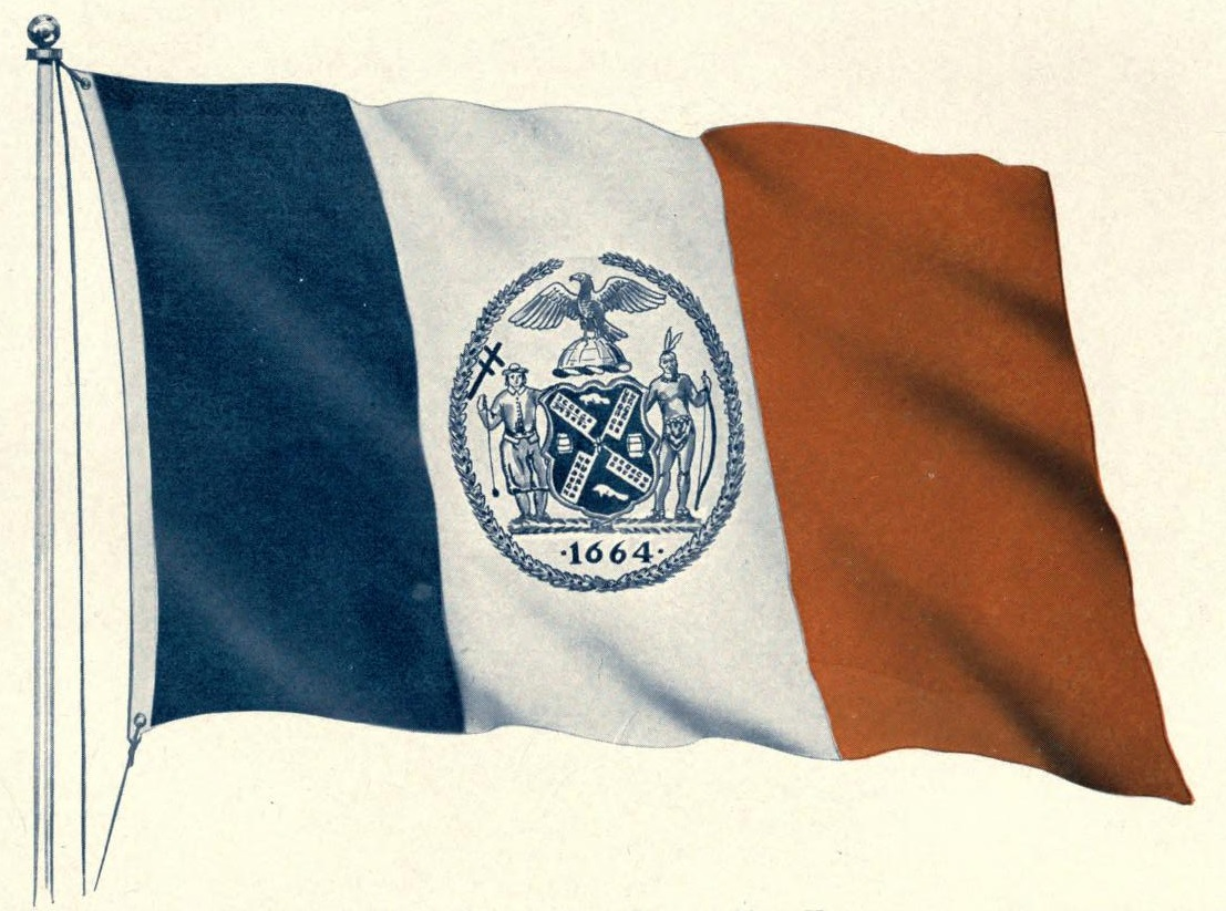 This is the first official flag of the City of New York, adopted in 1915. It features a blue/white/orange tricolor with the city seal in the center, and is virtually identical to the version flown today (with a change to the date in the seal).